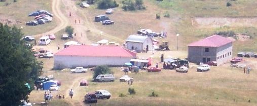 Ilino Monastery, Macedonia.